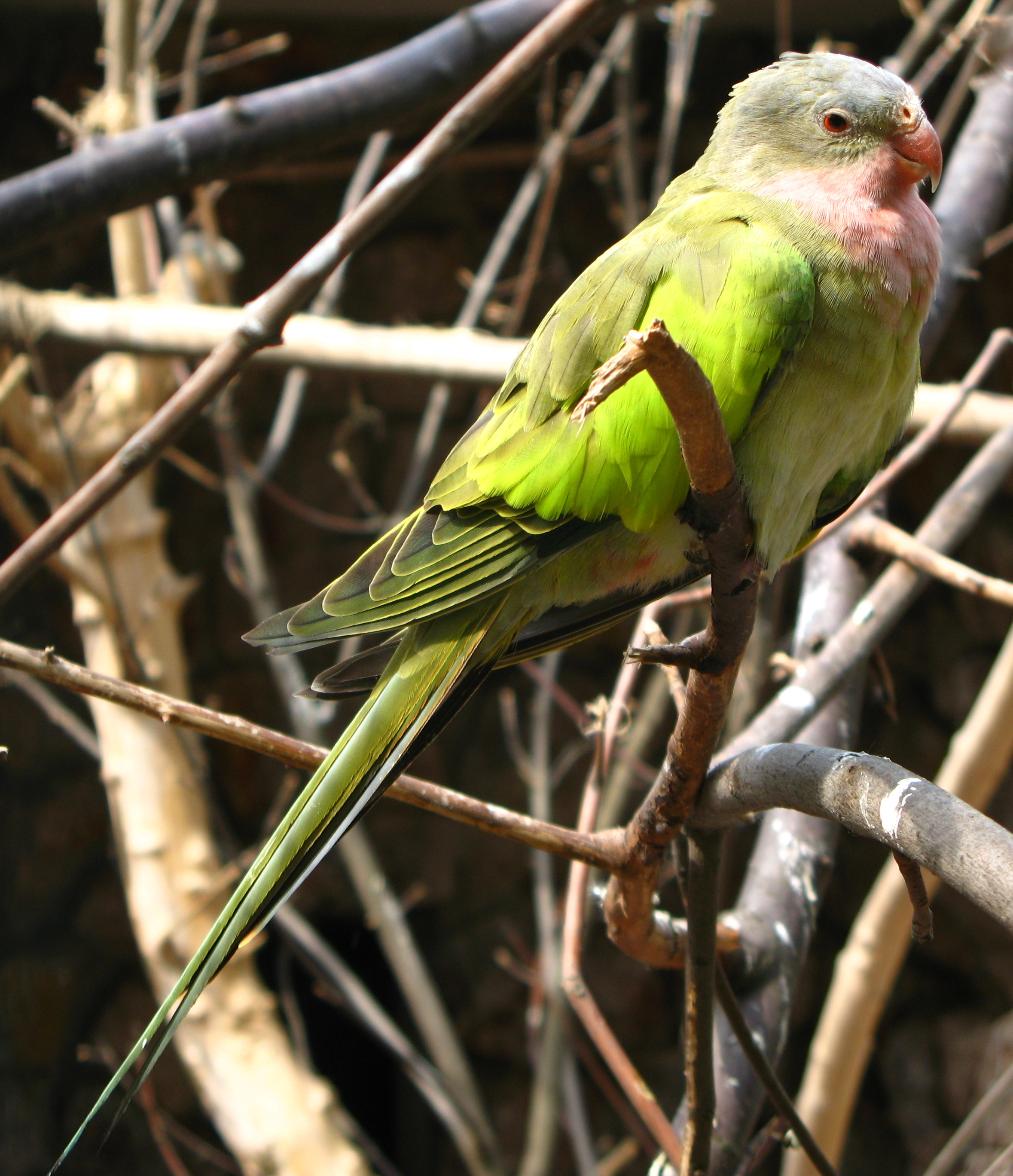 Princess Parrot (Polytelis alexandrae) in Warsaw Zoo